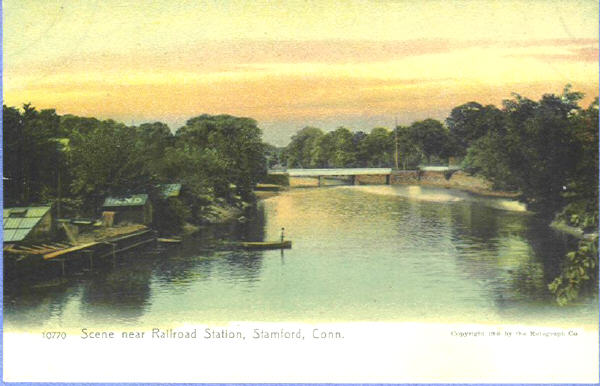 Postcard: Postcard picture. Caption: "Scene Near Railroad Station, Stamford, Conn." Appears to be looking north on Mill/Ripowam River, Stamford Connecticut: "Postcard, Pub by The Rotograph Co, New York City [,,,] Undivided Back (1901-07 era), Postally Unused"